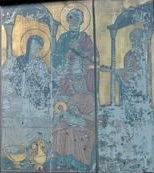 Nativity of Vigin Mary Church, Lopatica Fresco